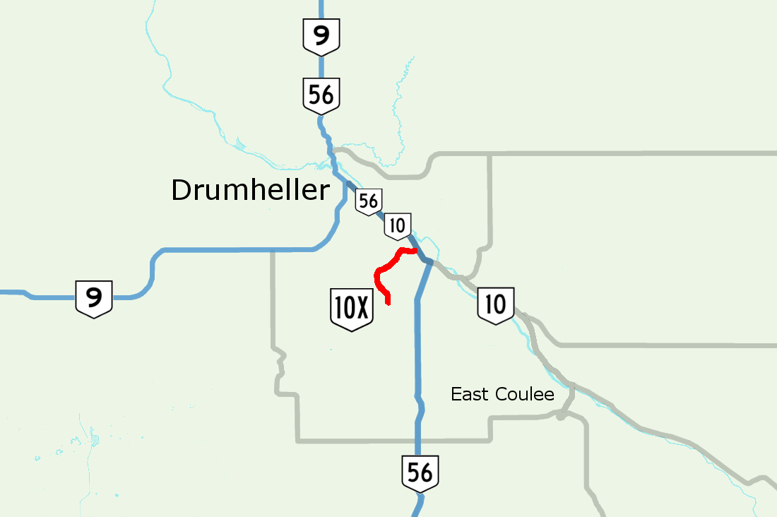 Alberta Highway 10X - created with OpenStreetMap